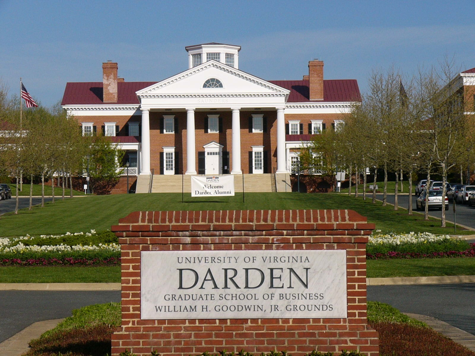 Darden School at the University of Virginia